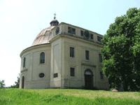 Peace chapel in Sremski Karlovci